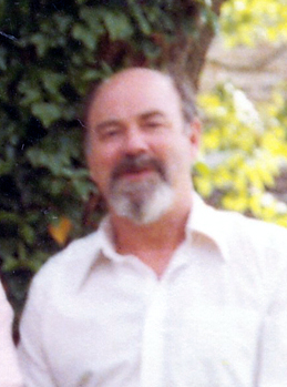 John Lanchbery